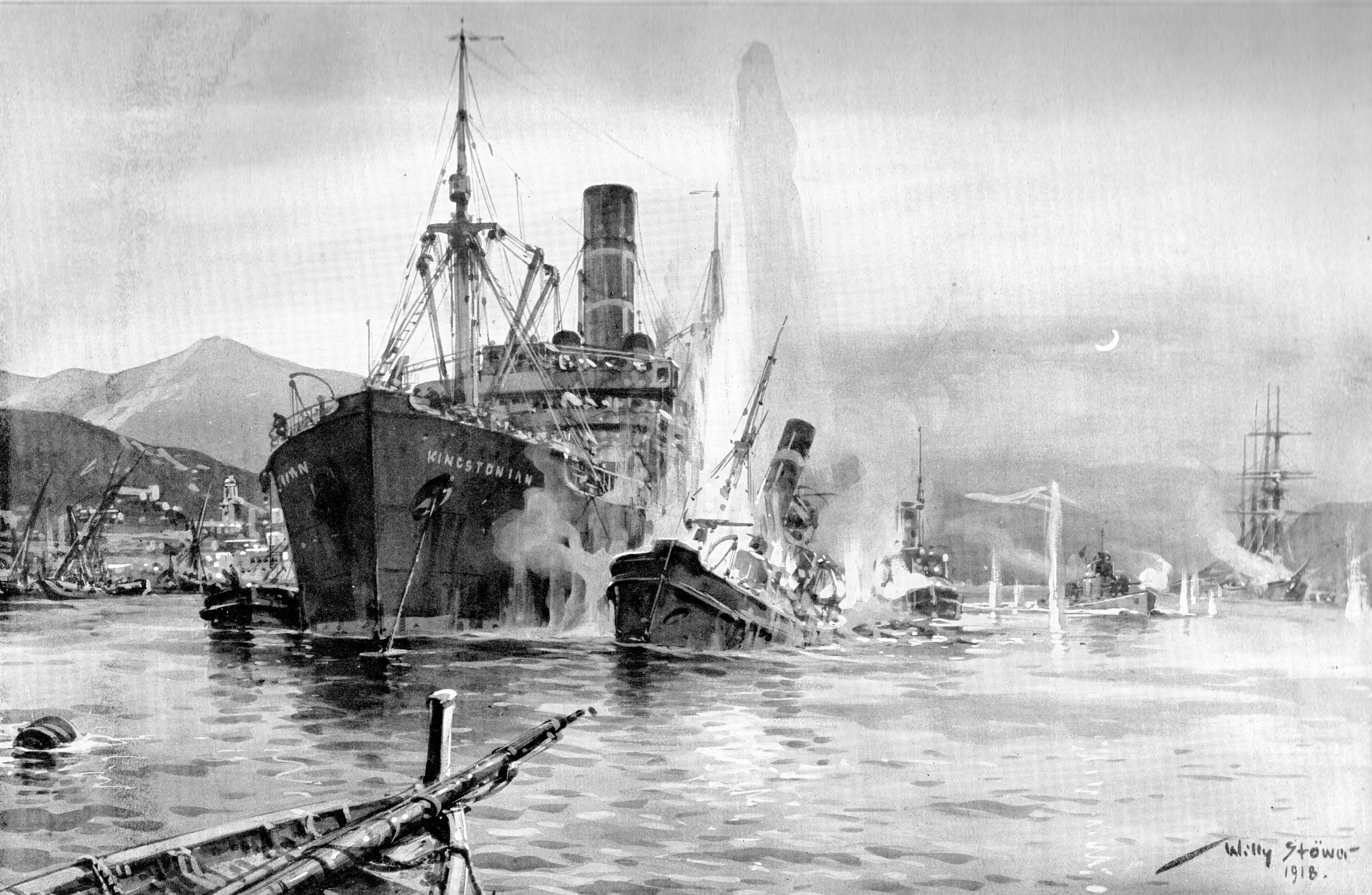 SM UB-48 under lieutenant commander Wolfgang Steinbauer (1888-1978) is raiding the Italian harbour of Carloforte on 29 april 1918 destroying the British steamer SS KINGSTONAN, two salvage vessels and a French barque. Painting by Willy Stöwer